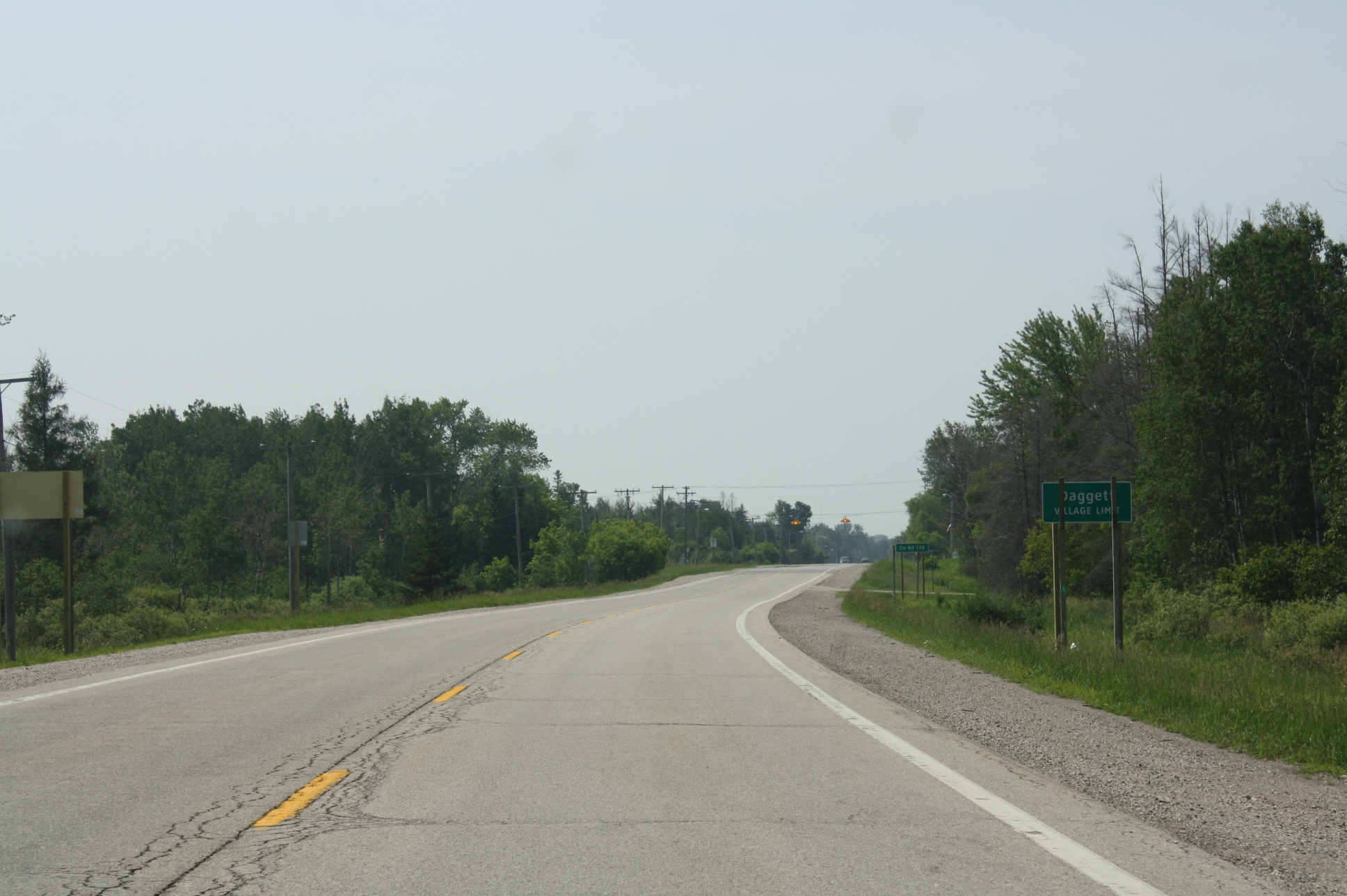 The sign for Daggett, Michigan on U.S. Route 41.